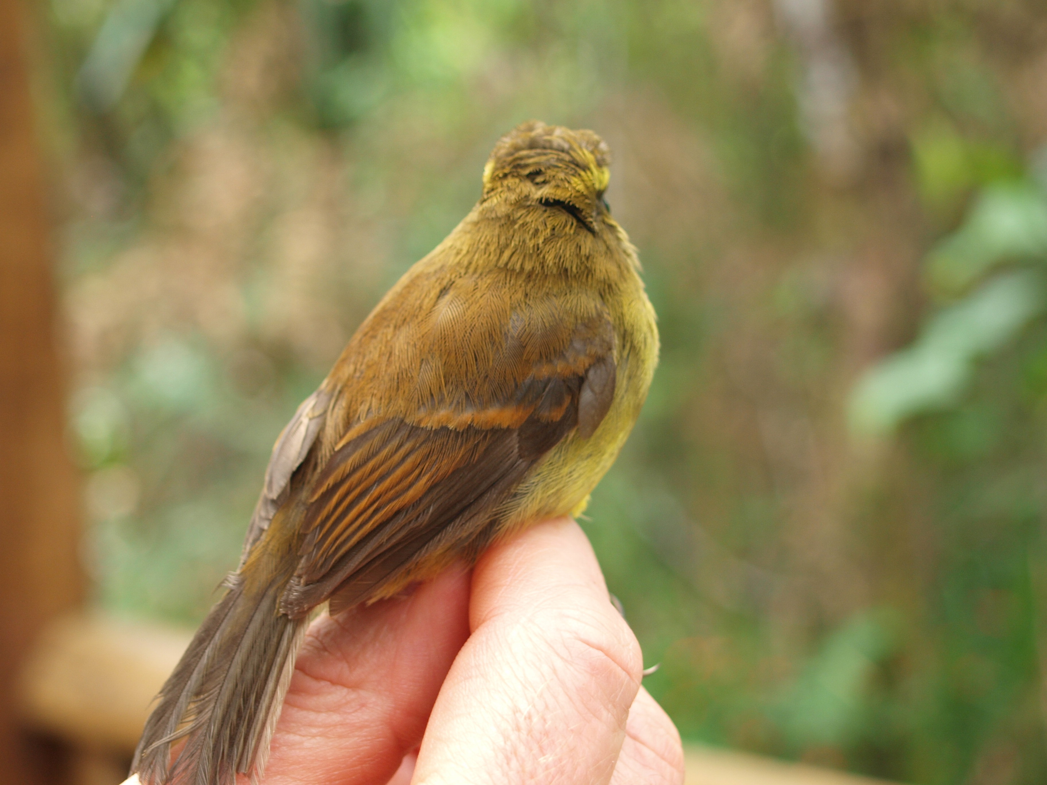 Back of Yellow-bellied Chat-Tyrant